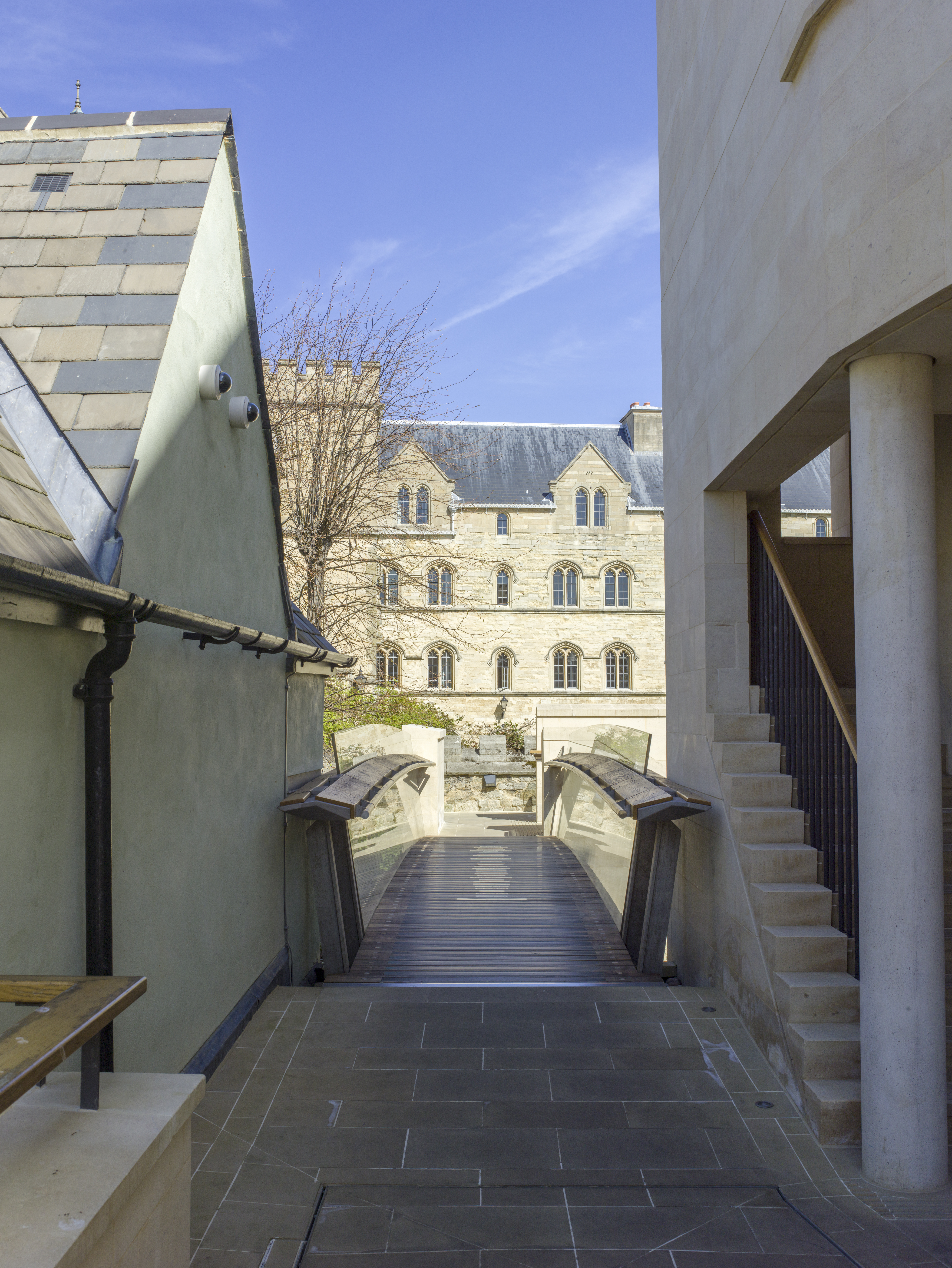 Pembroke College (Oxford University) founded in 1624. In April 2013, Pembroke opened two new modern quadrangles connected to the Chapel quadrangle via a bridge.